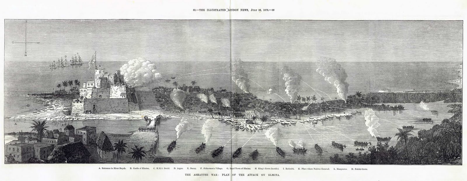 Lithograph of the bombardment of Elmina